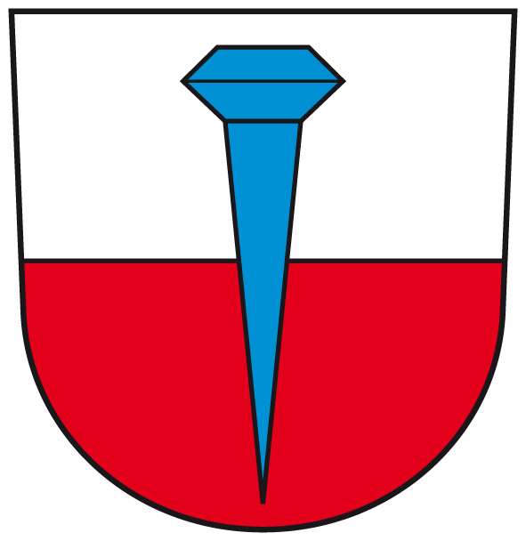 Coat of arms of Nagold